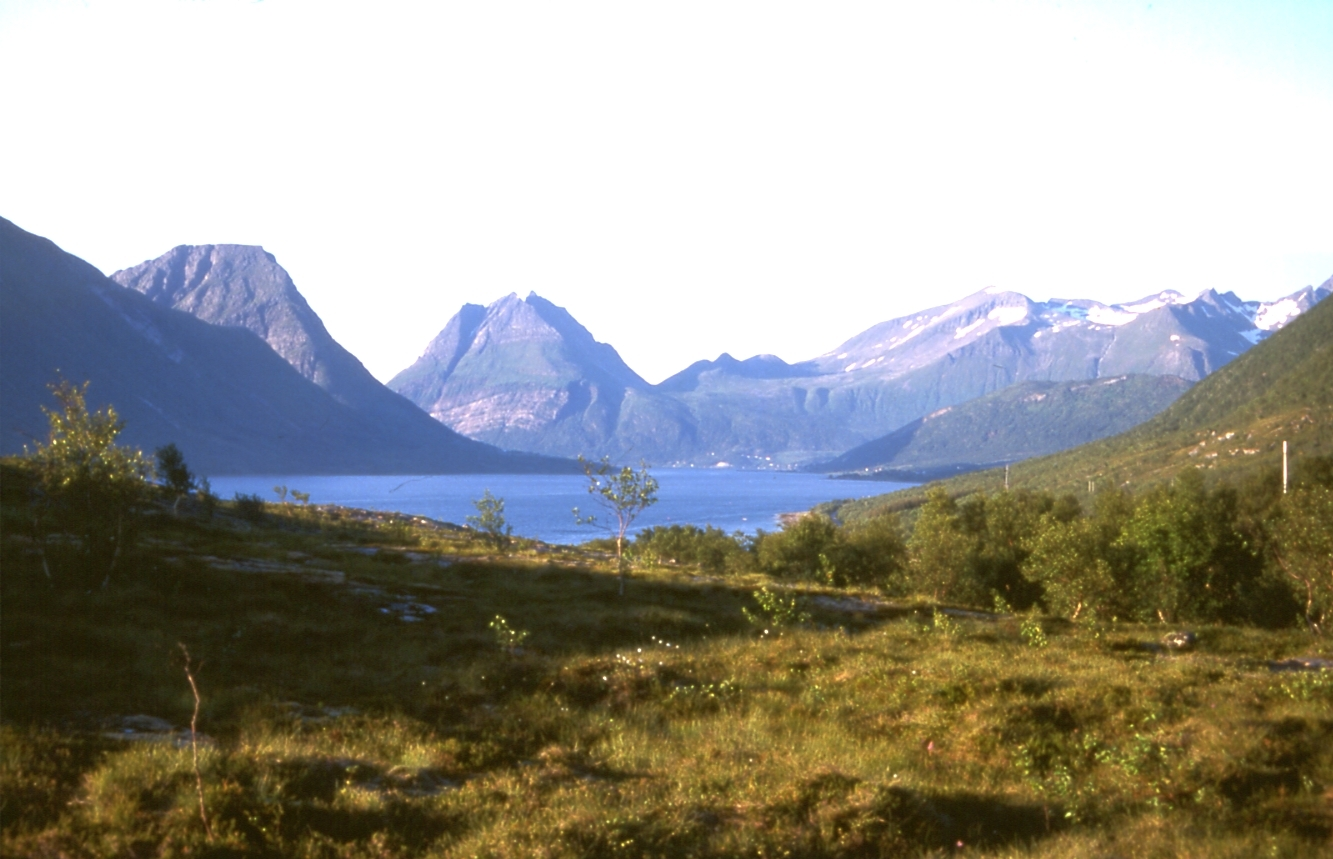 Aldersund in Helgeland, northern Norway. The left side is Aldra island.